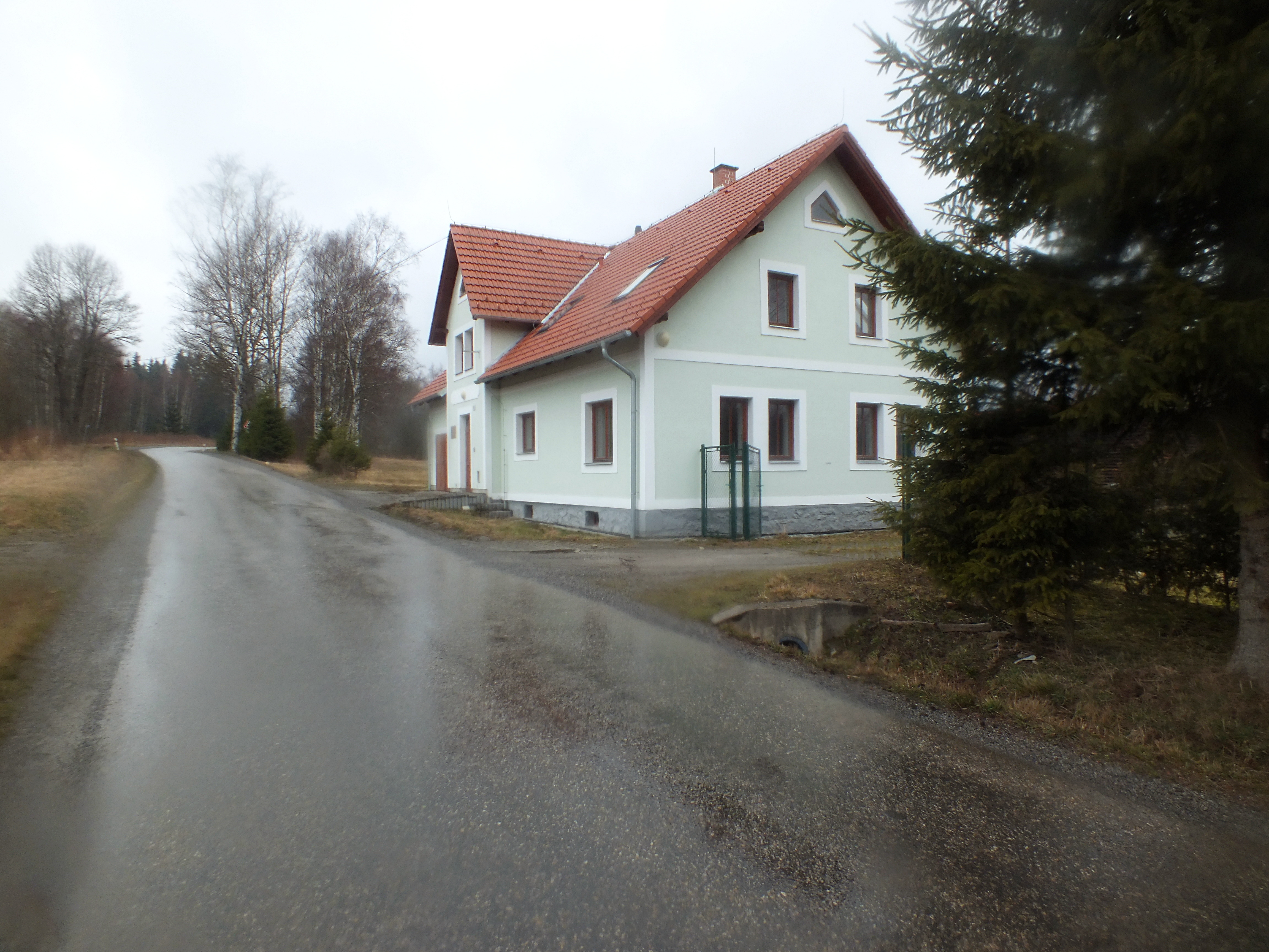 Gamekeeper's lodge of the Military Forests and Farms in Otice